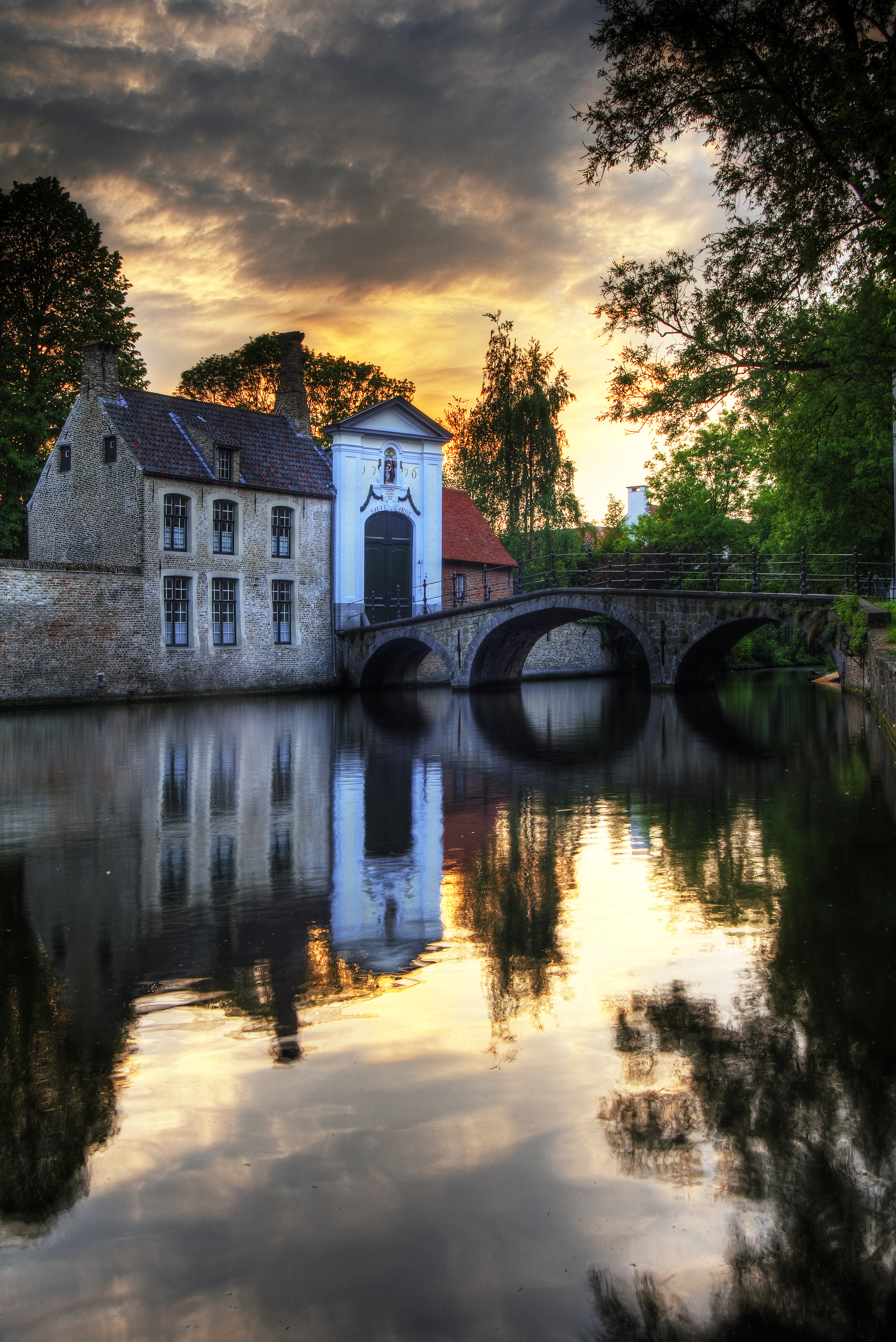 Bruges is the capital and largest city of the province of West Flanders in the Flemish Region of Belgium. It is located in the northwest of the country. The historic city centre is a prominent World Heritage Site of UNESCO. It is egg-shaped and about 430 hectares in size. The area of the whole city amounts to more than 13,840 hectares, including 193.7 hectares off the coast, at Zeebrugge ("Seabruges" in literal translation). The city's total population is more than 117,000, of which around 20,000 live in the historic centre. Bruges has, because of its port, a significant economic importance and is also home to the College of Europe. From Wikipedia , the free encyclopedia